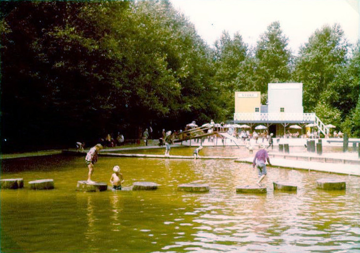 Flevohof, Dutch amusentpark